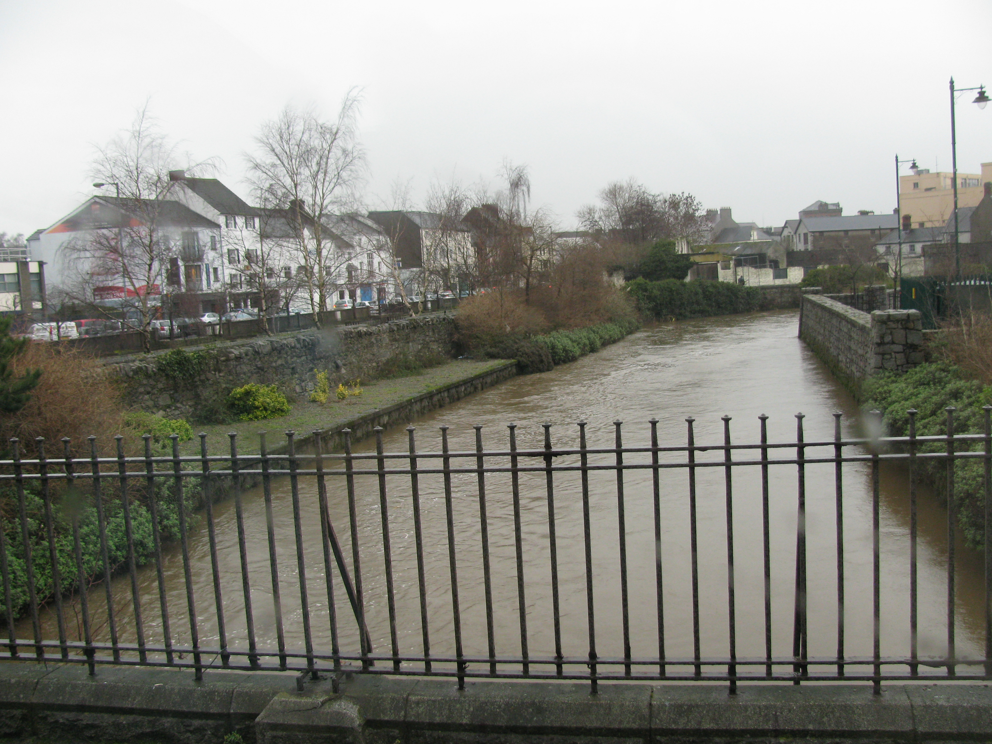 Clanrye resp. Newry River, Newry